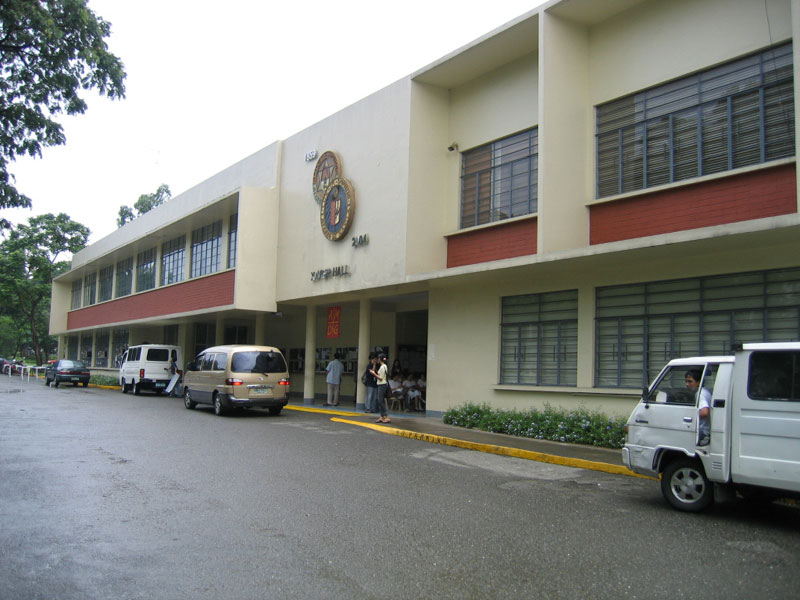 Xavier Hall in the Ateneo de Manila University.